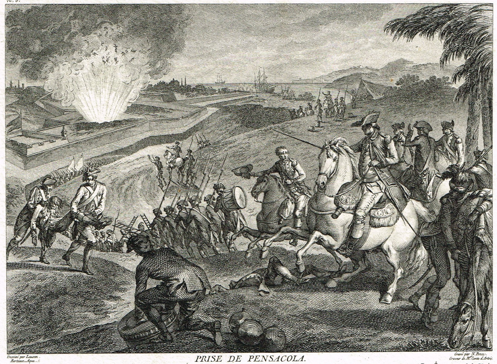 This is an engraving depicting the 1781 Battle of Pensacola. The fortification in the background is depicted with the powder magazine blown up by Spanish forces on May 8, precipitating the British surrender.